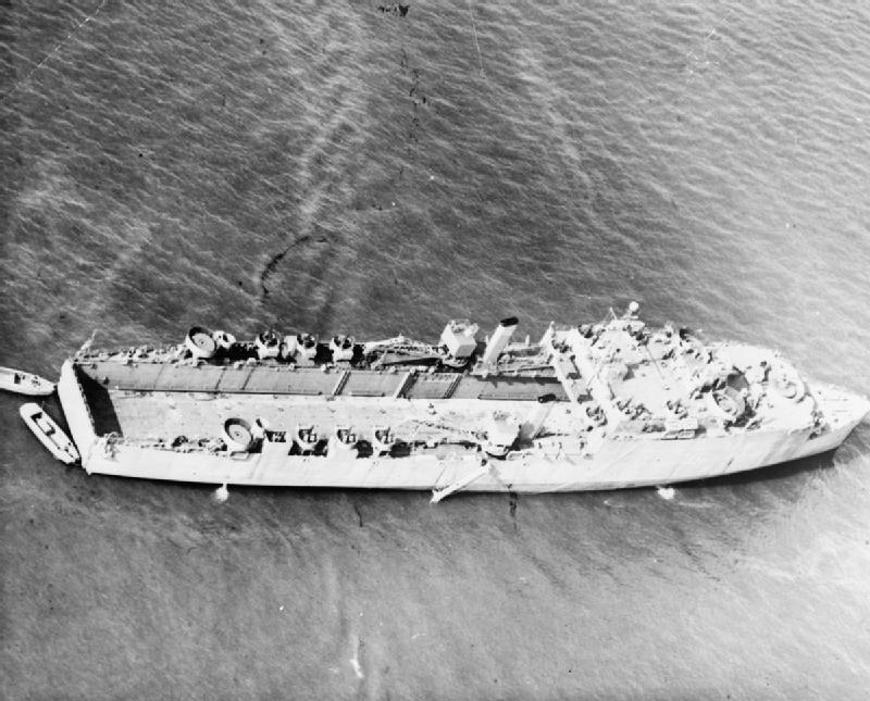 HMS Highway At anchor.